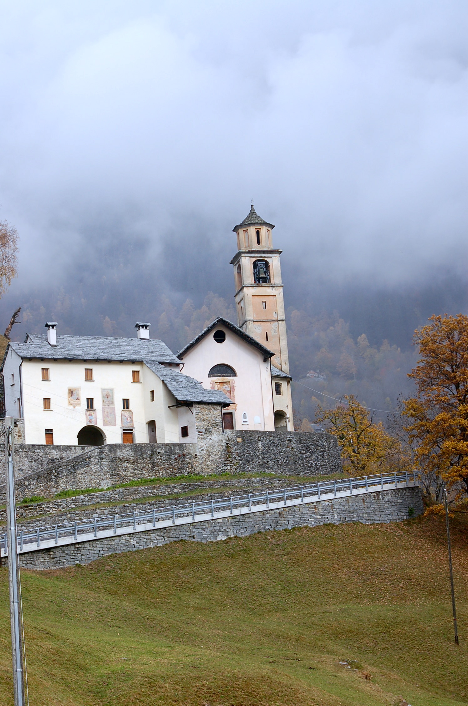 The main part of the town is steep downhill from the church. That means at least every Sunday residents make the trek both up and downhill to go to church.